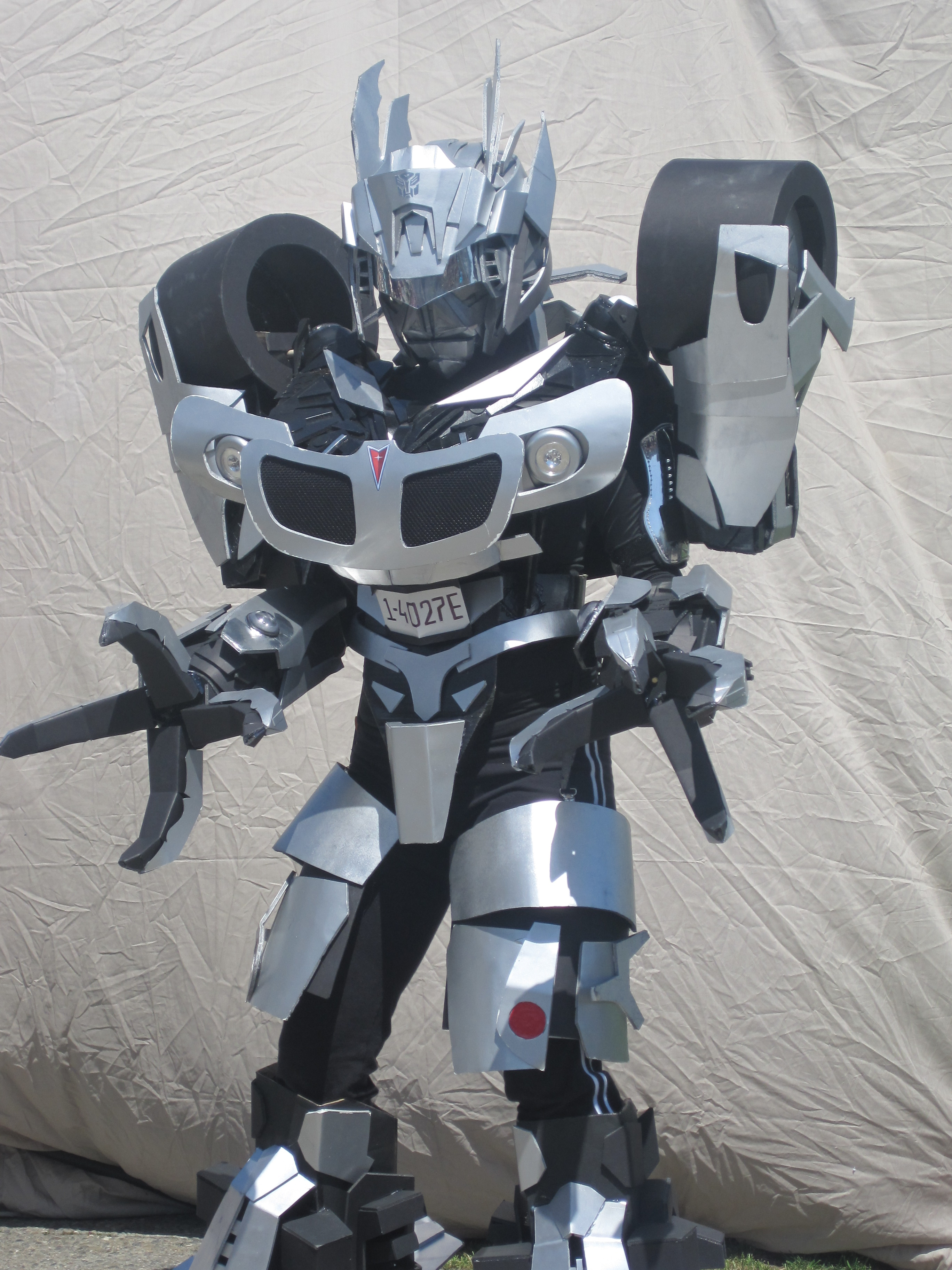 A cosplayer portraying Jazz from the 2007 Transformers film competing in the costume contest at the Northern California Cherry Blossom Festival in San Francisco, California. This costume was the grand prize winner.